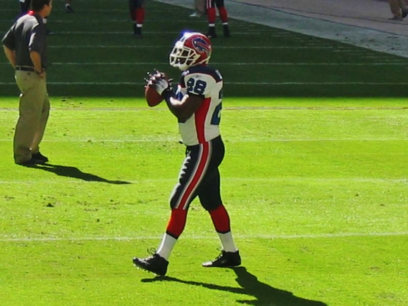 Buffalo Bills running back Anthony Thomas warms up before a game.